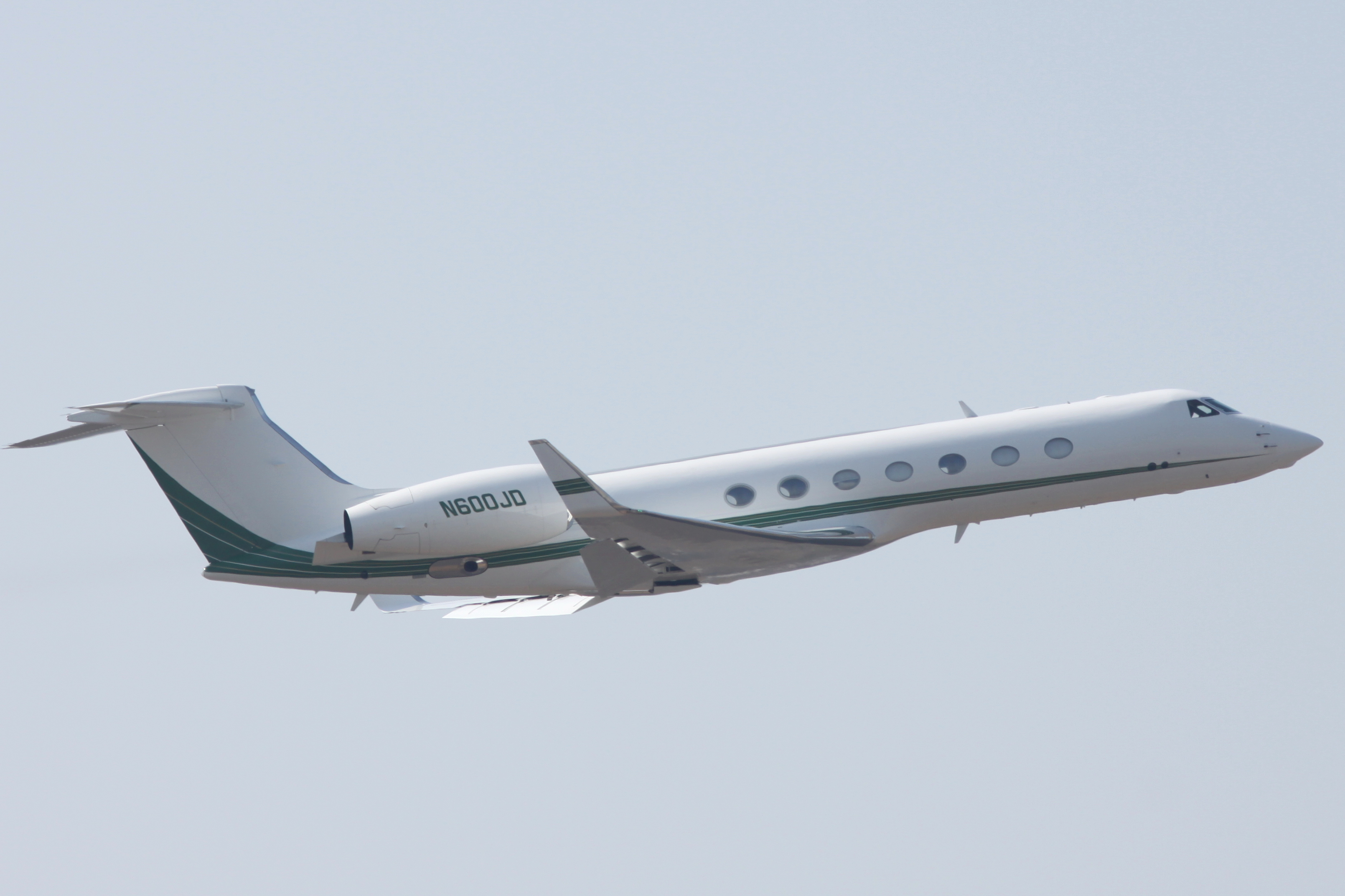 Narita International Airport, Gulfstream Aerospace G450, c/n:640